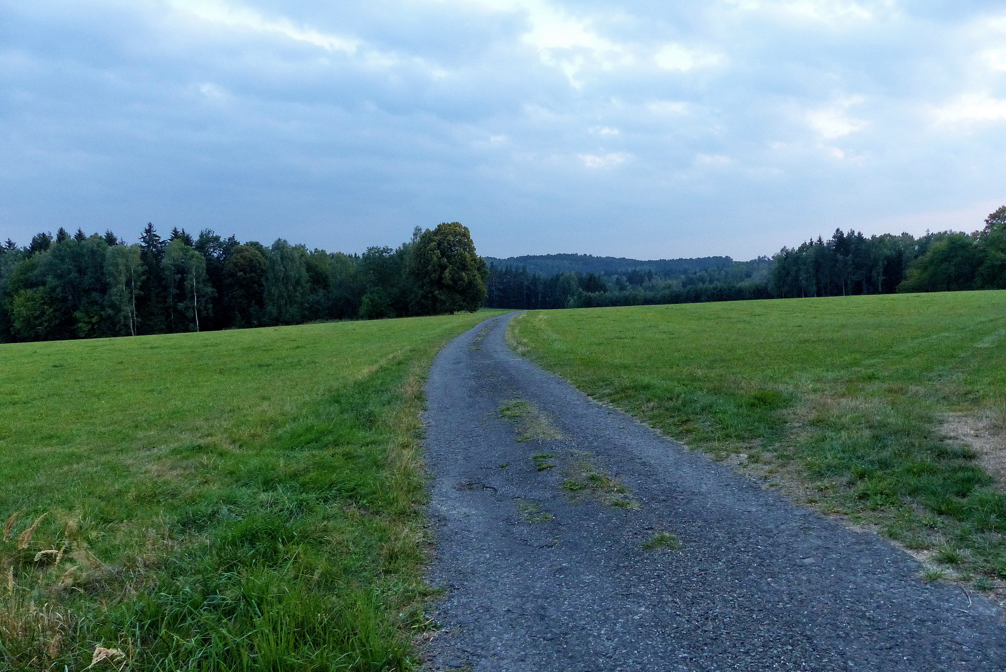 Místo bývalých Zábělců – středová silnice